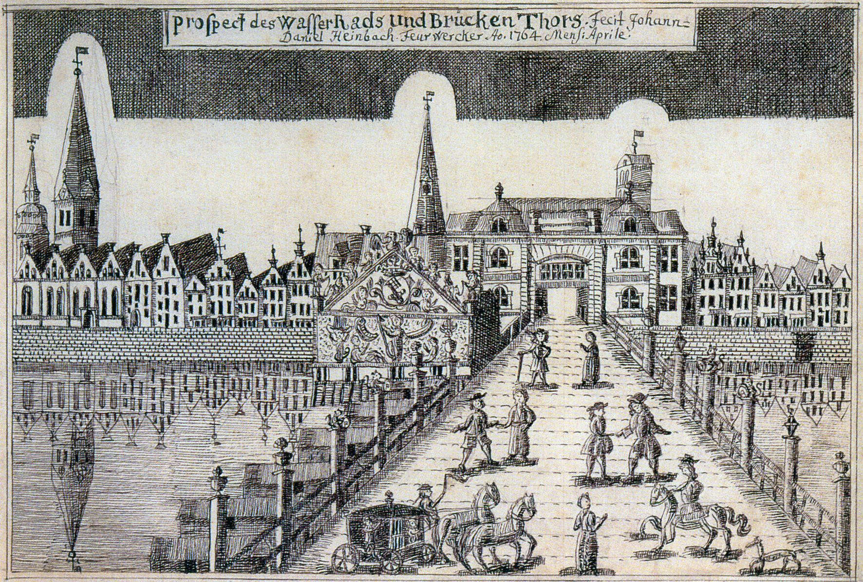 showing the great Weser bridge in Bremen, Germany.